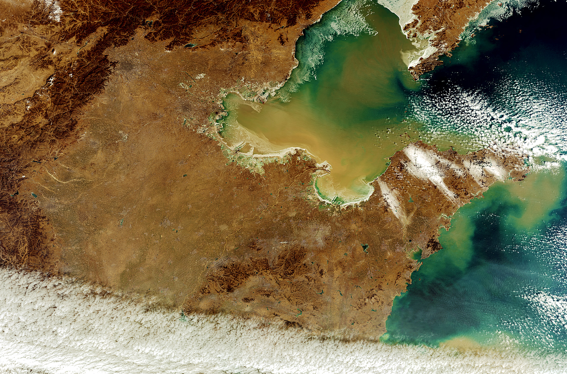 Northern China is pictured in this image acquired by Envisat’s MERIS instrument on 8 February 2012. The North China Plain dominates the image, bordered on the north and west by mountains, with the Yellow Sea to the east. Flowing northeast across the Plain we can see the Yellow River – China’s second longest – before it empties into the Bohai Sea, the innermost gulf of the Yellow Sea. In the upper left portion of the image near the mountains, China’s capital Beijing looks like a shaded circle.